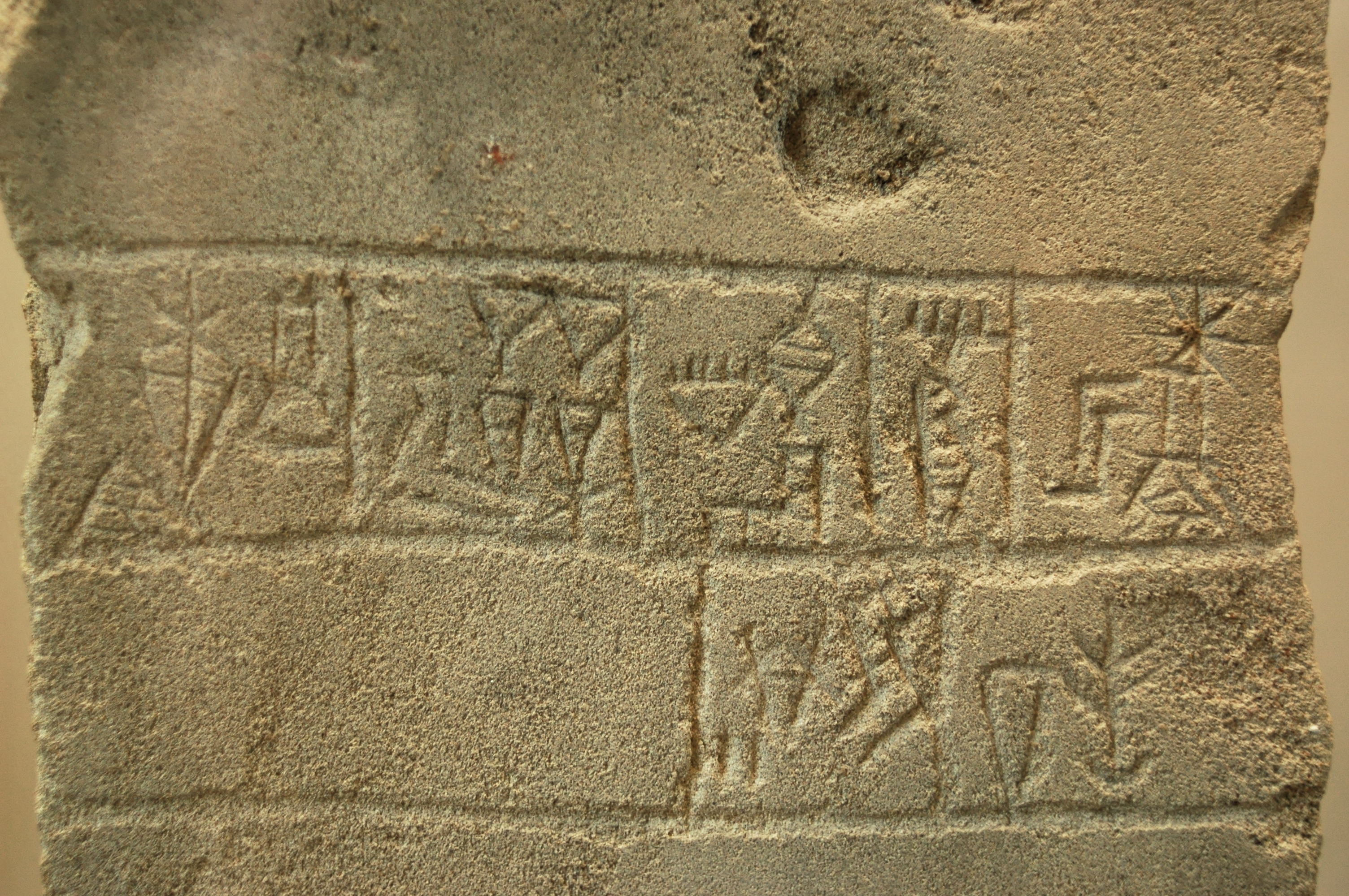 Fragment of a stele bearing the inscription "Ur-Nanshe, son of Gunidu, to Ningirsu". Lagash, Archaic Dynasties III. Found in Telloh, ancient Girsu.